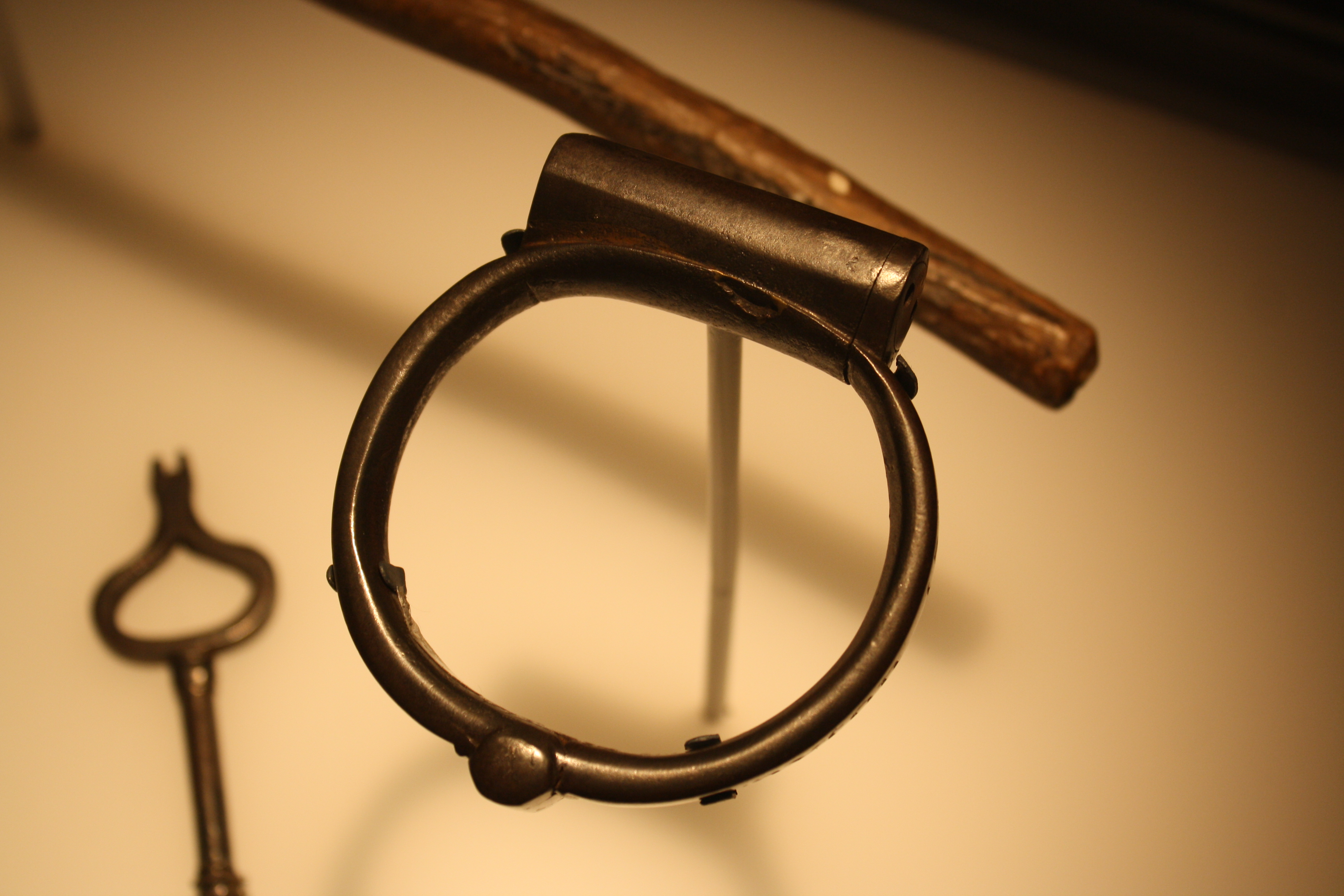 Slave ID bracelet at the NMM